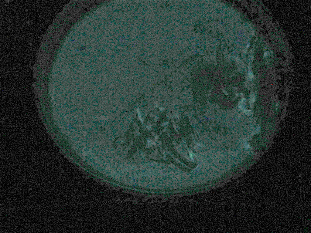 Aliivibrio fischeri, with the London Biohackers. Glowing bacteria!